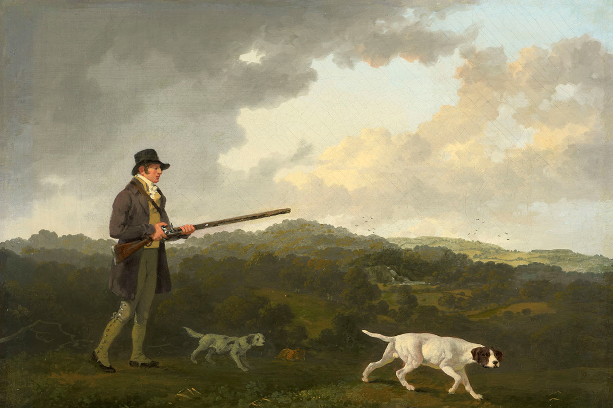 William Danby by Julius Caesar Ibbetson (1759 - 1817)